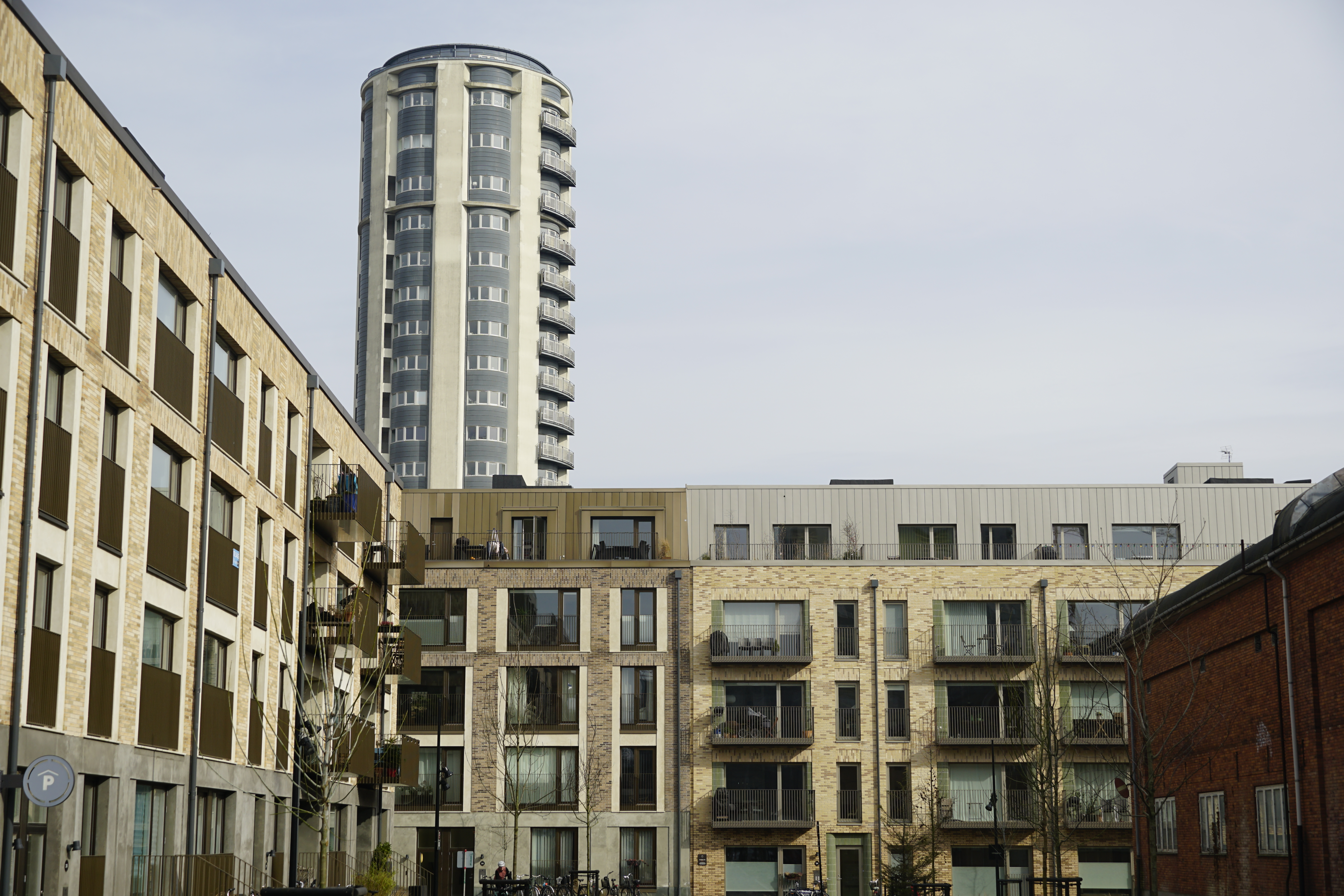 Thorvald bindesbølls plads in Copenhagen